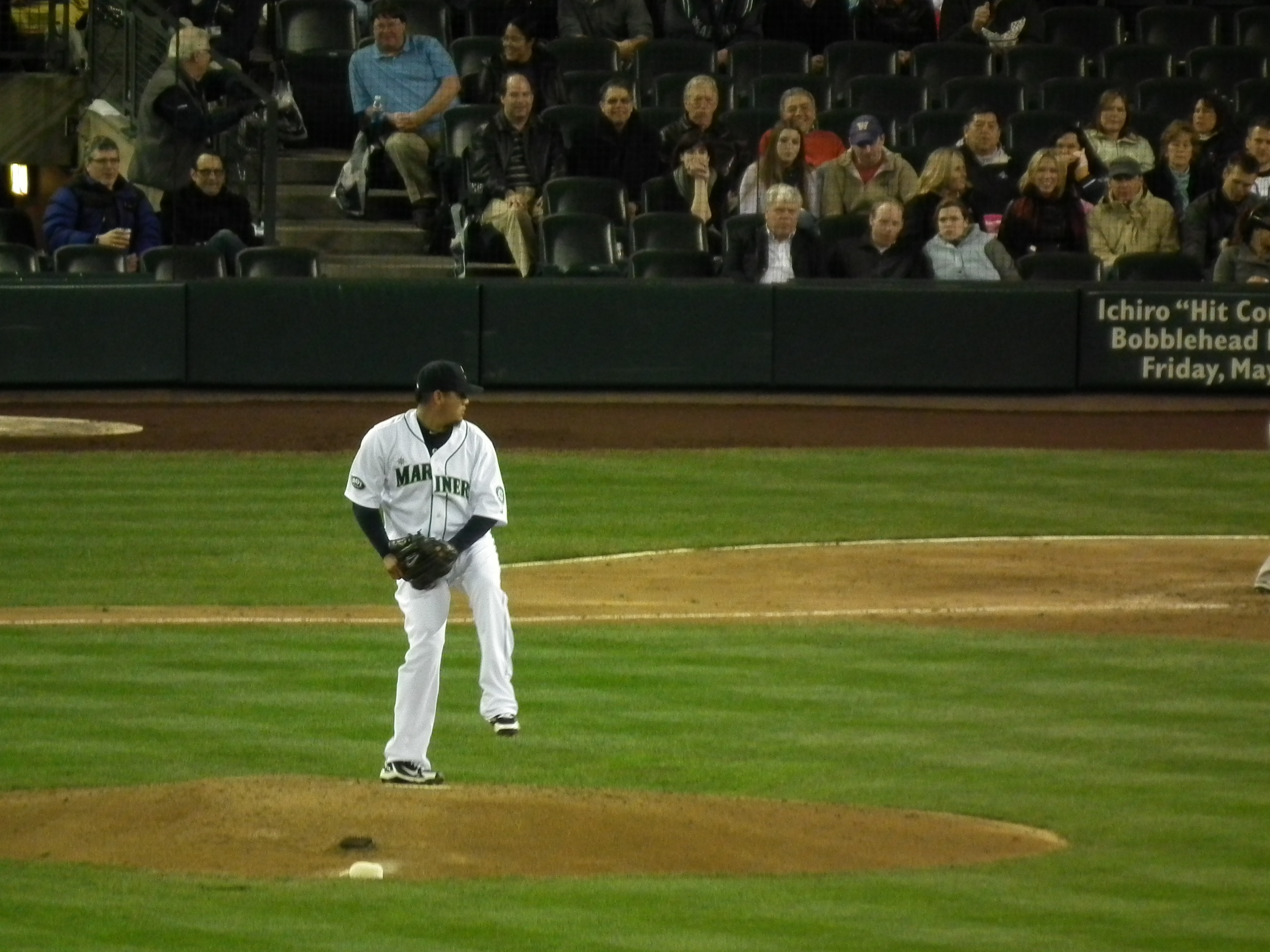 Félix Hernández (#34) of the Seattle Mariners pitches in a baseball game against the Oakland Athletics at Safeco Field in Seattle, Washington, USA. The Mariners would win the game 1-0, and Hernández would be credited with the win.